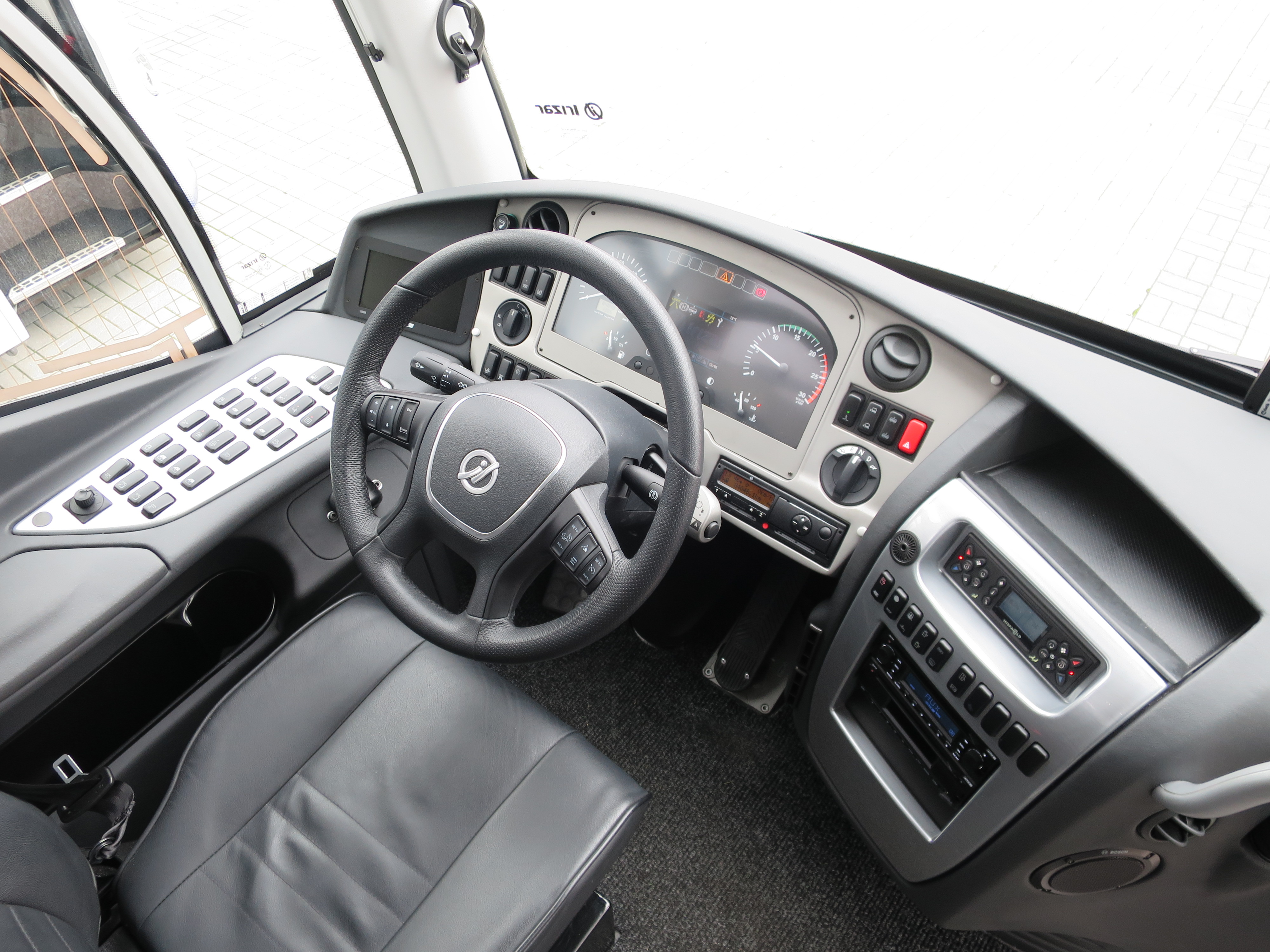 The making of this document was supported by Wikimedia Polska Association, within Wikigrant no. WG 2016-45. Irizar i6